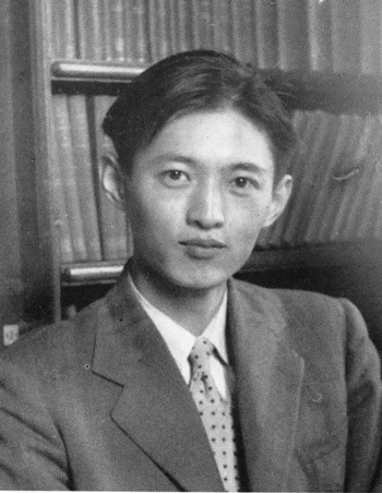 Zou Chenglu (Chen-Lu Tsou) in his youth